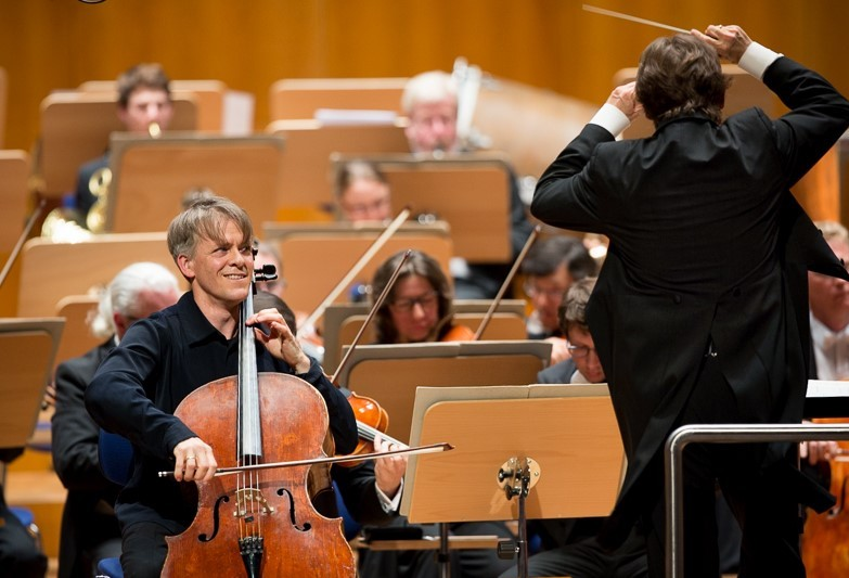 Alban Gerhardt at the Tonhalle Dusseldorf